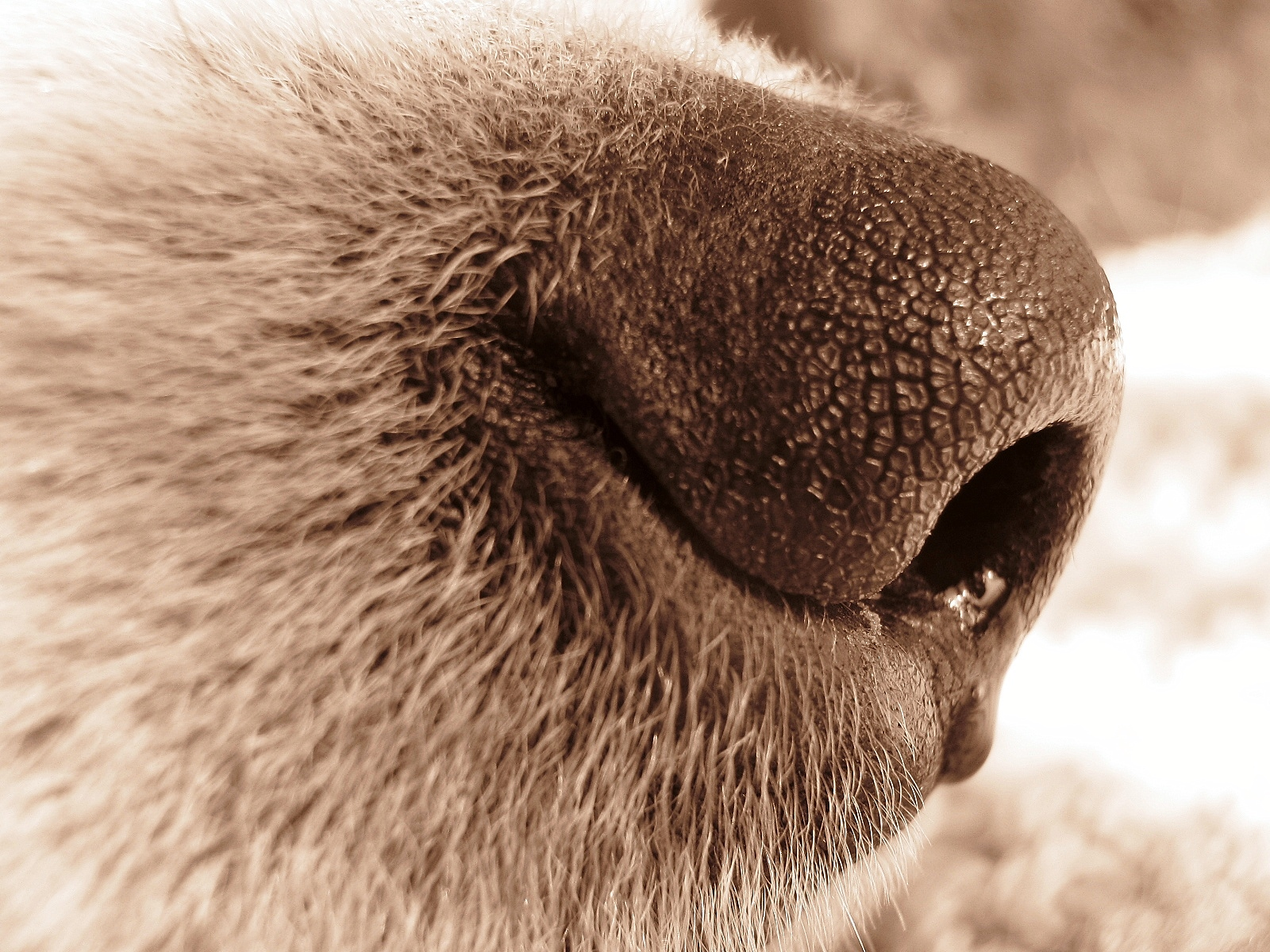 A macro shot of a dog's nose, in sepia